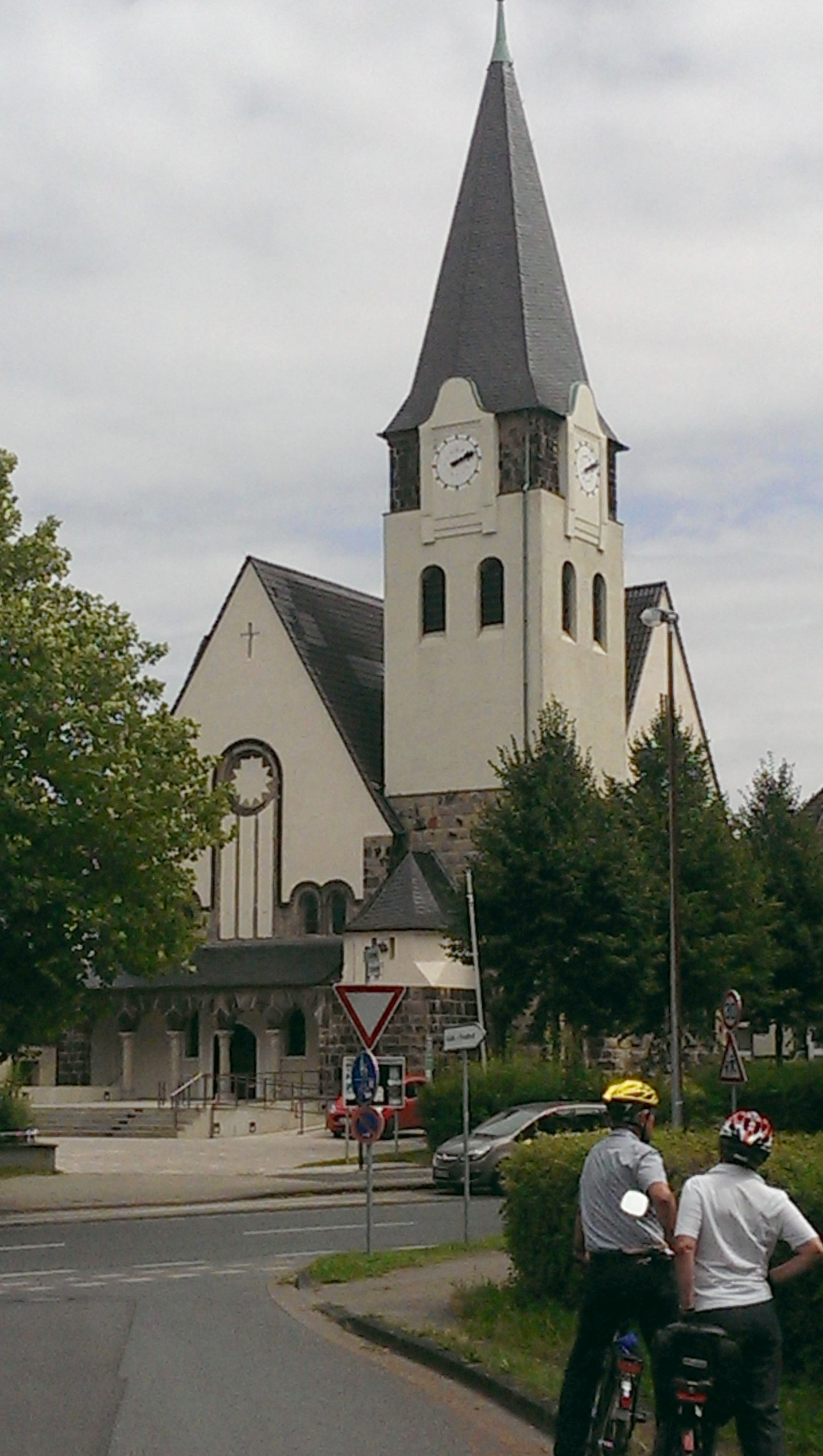 Das Bild zeigt die Christuskirche in Lünen-Horstmar